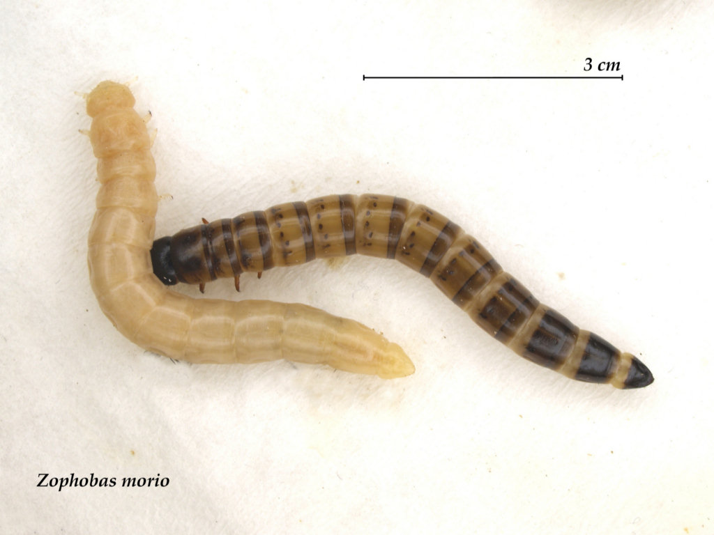 Two larvae of Zophobas morio, the one on the left just moulted, the other older.